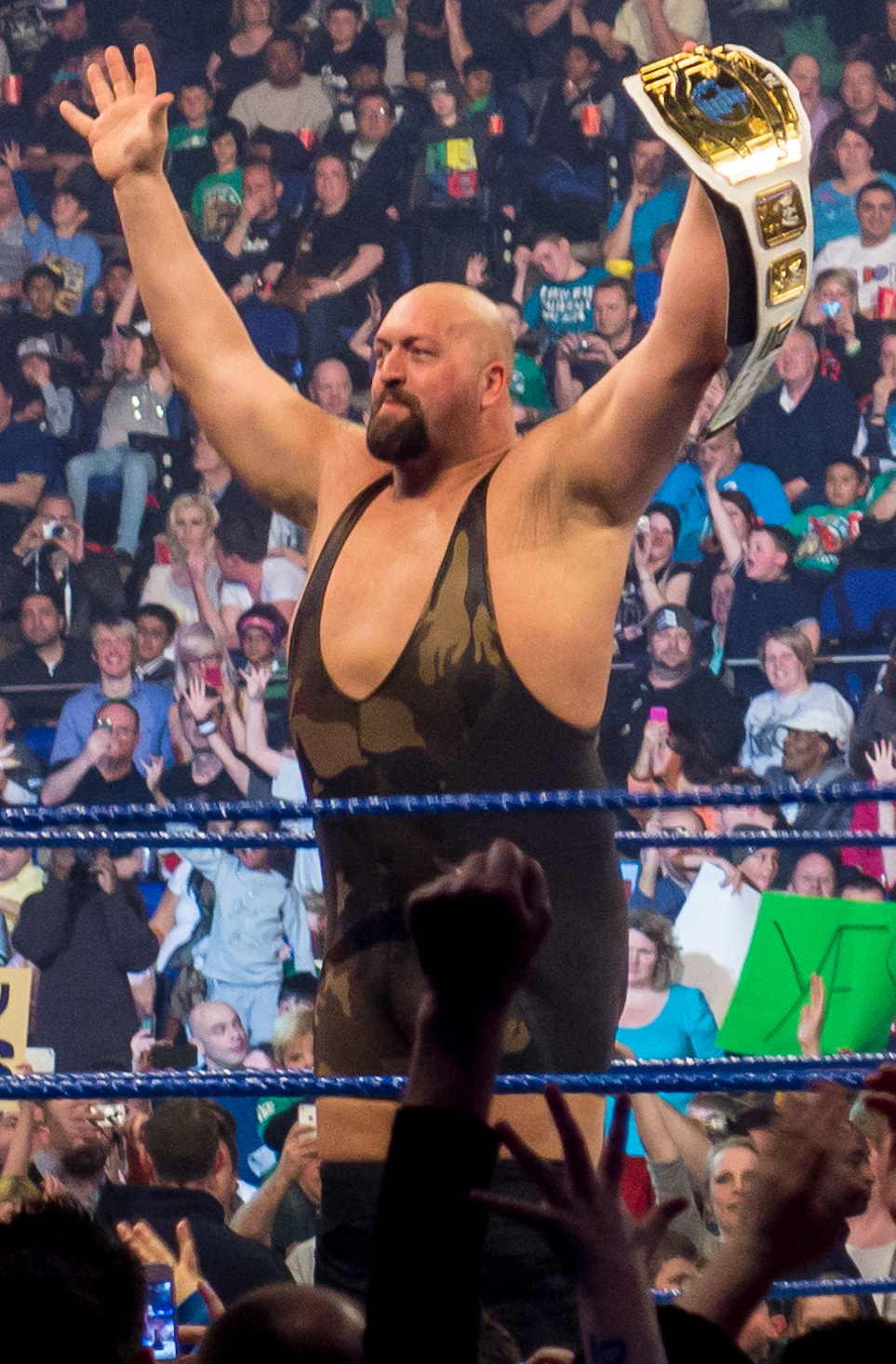 The Big Show entering the ring as the WWE Intercontinental Champion during a WWE SmackDown taping in London, England. Originally taken April 17, 2012 at the O2 Arena.